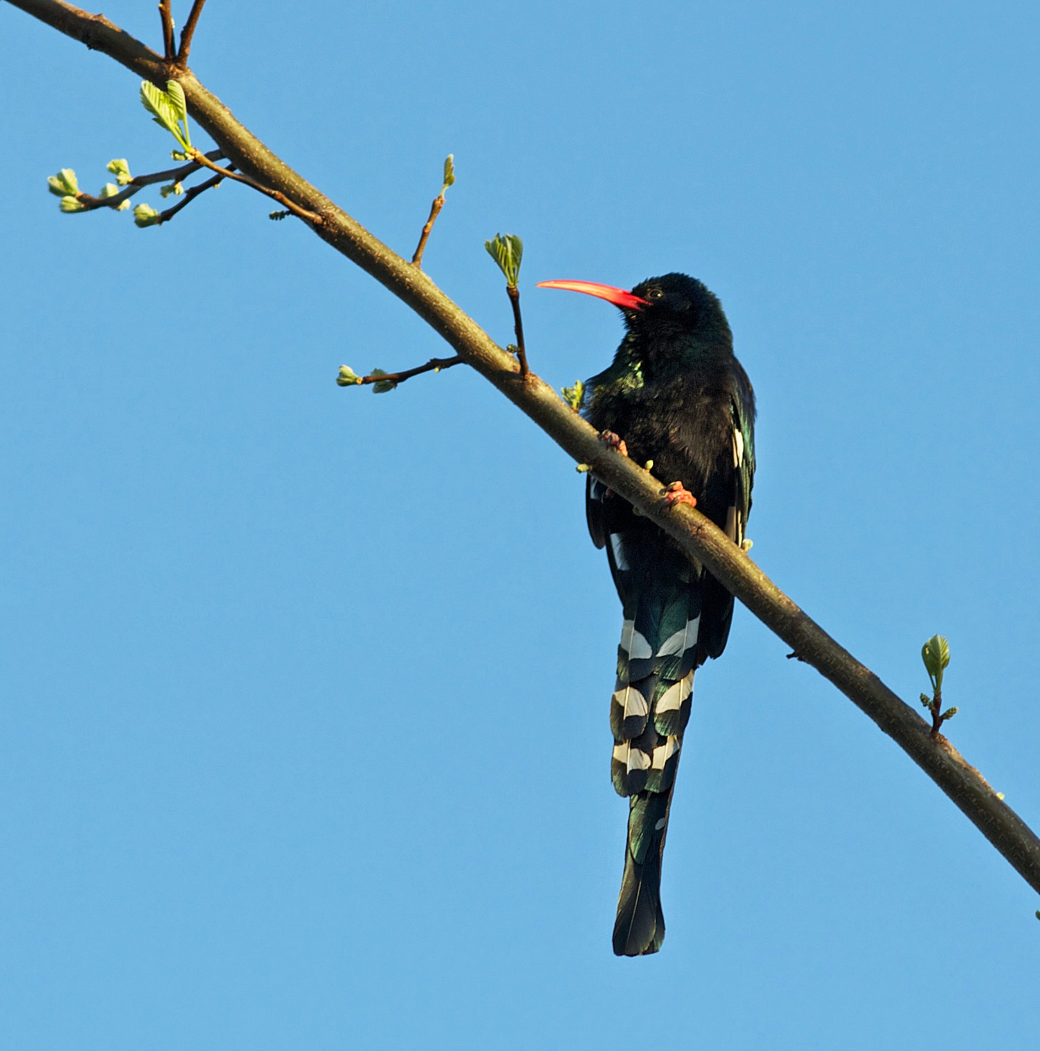 A Green Wood Hoopoe in South Africa.